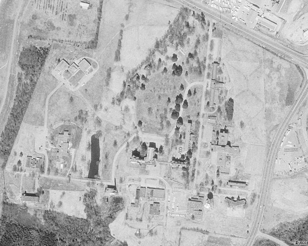 Aerial Photo from MSR Maps with image courtesy of the U.S. Geological Survey.